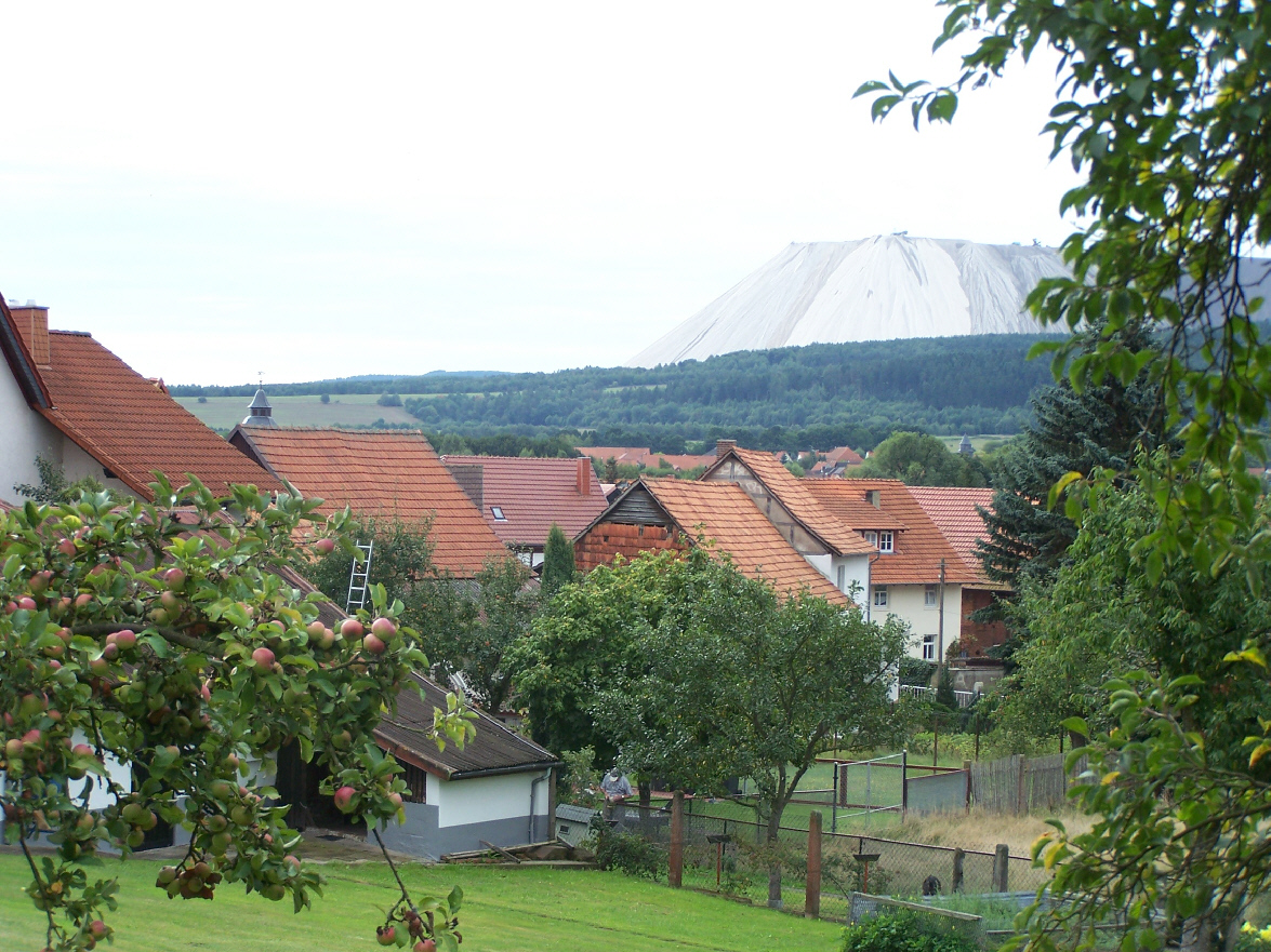 Grossensee, Kleinensee and in the background the Monte Kali .